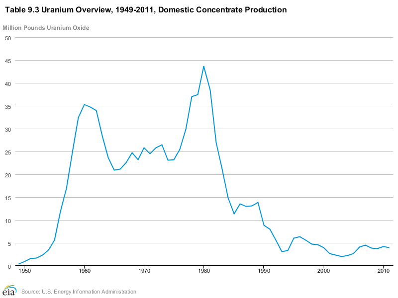 Production of uranium in the United States, 1949-2011